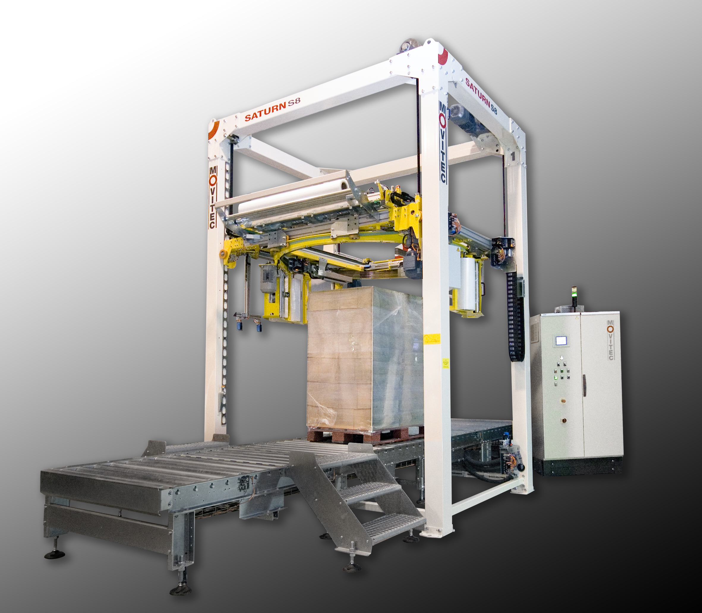 Automatic stretch wrapping machine